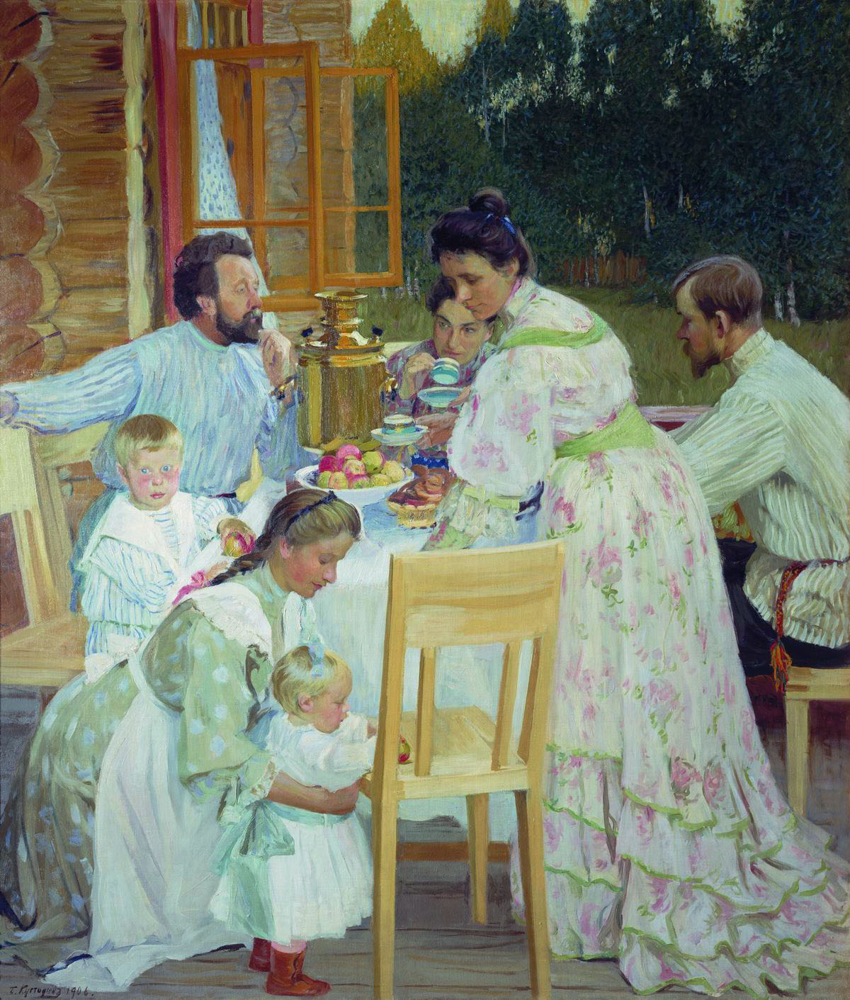 Boris Kustodiev's painting "On terrace".